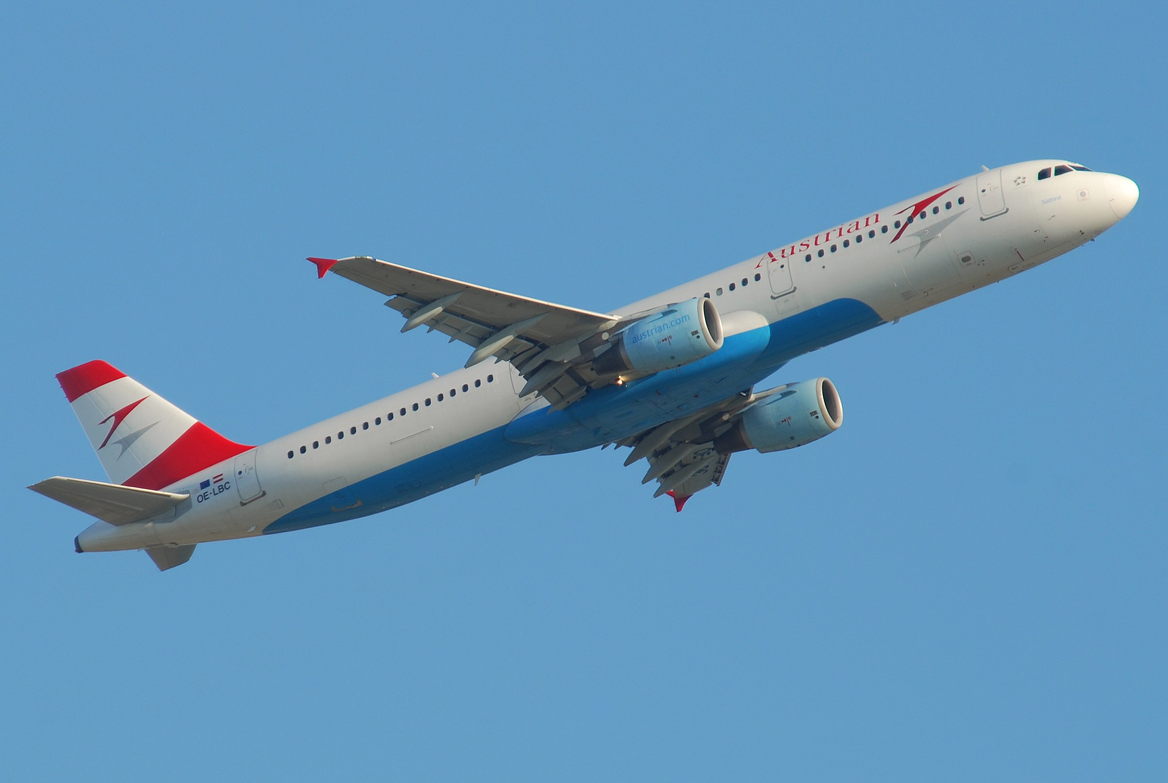 Austrian Airlines Airbus A321-211; OE-LBC@FRA;09.07.2010/581ap